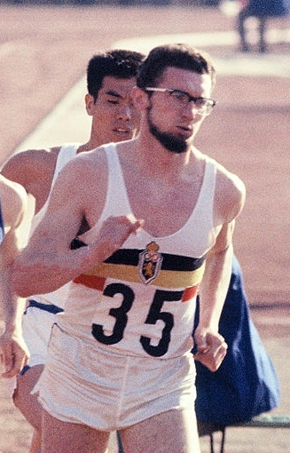 Athletes compete in the Men's 800m Semi-final at the National Stadium during the Tokyo Olympic on October 15, 1964 in Tokyo, Japan: Jacques Pennewaert